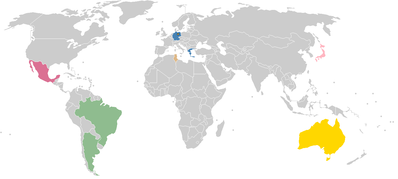 Map of participating countries.